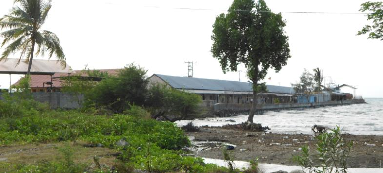 Hera port, East Timor